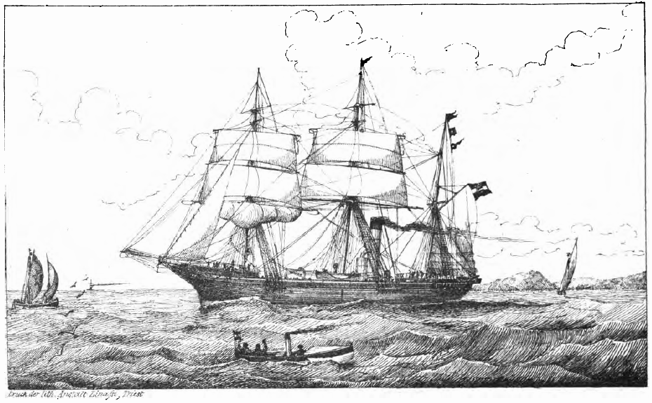 Austrian Steamer SMS Pola